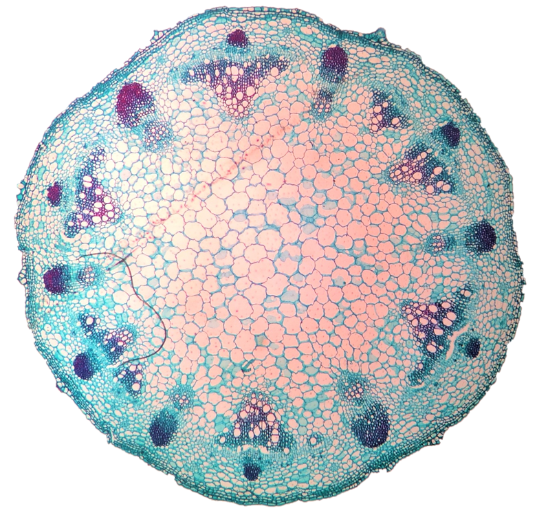 x10 magnification with a light microscope.